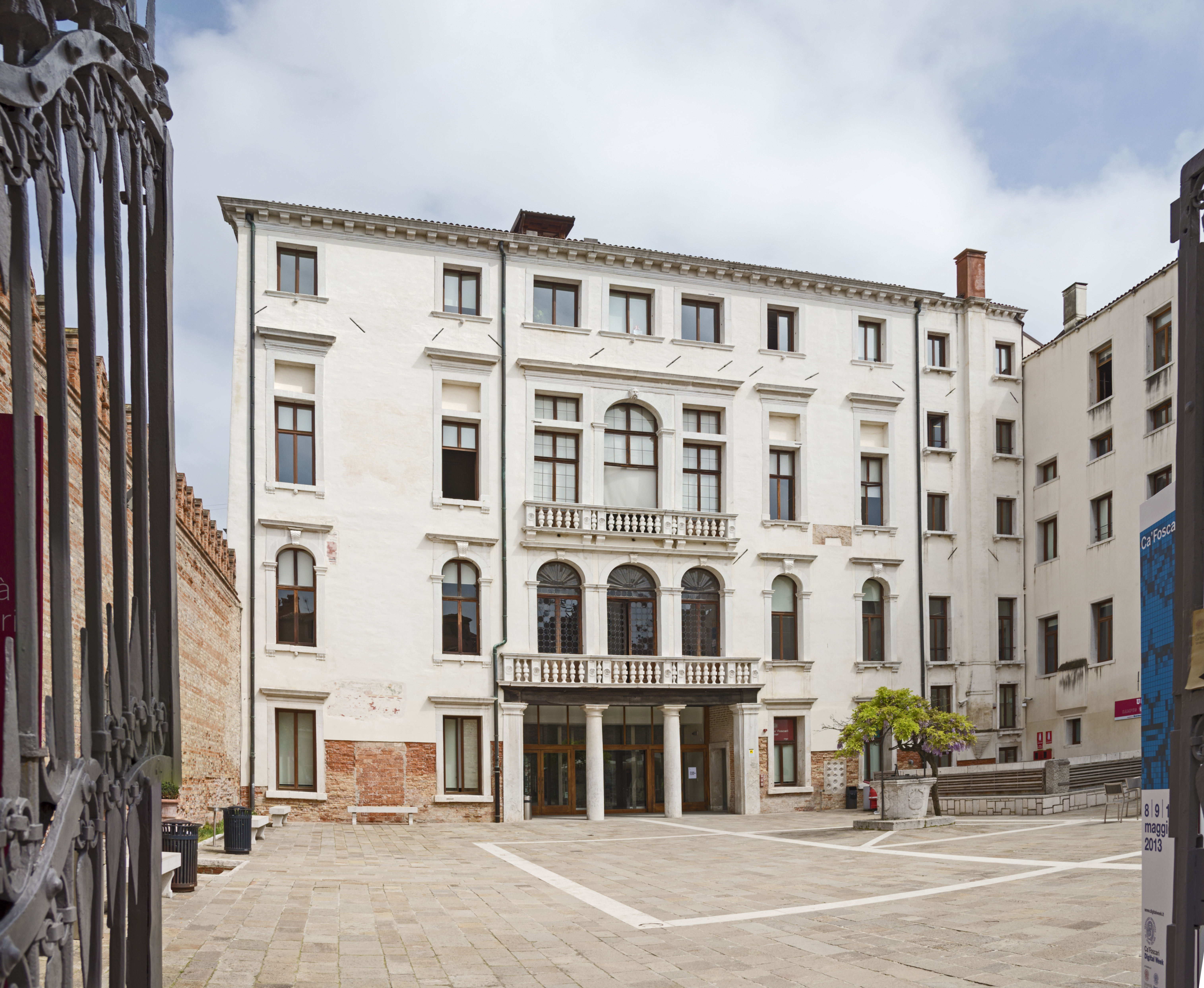 Ca' Foscari, Venice. Facade on Calle Foscari.